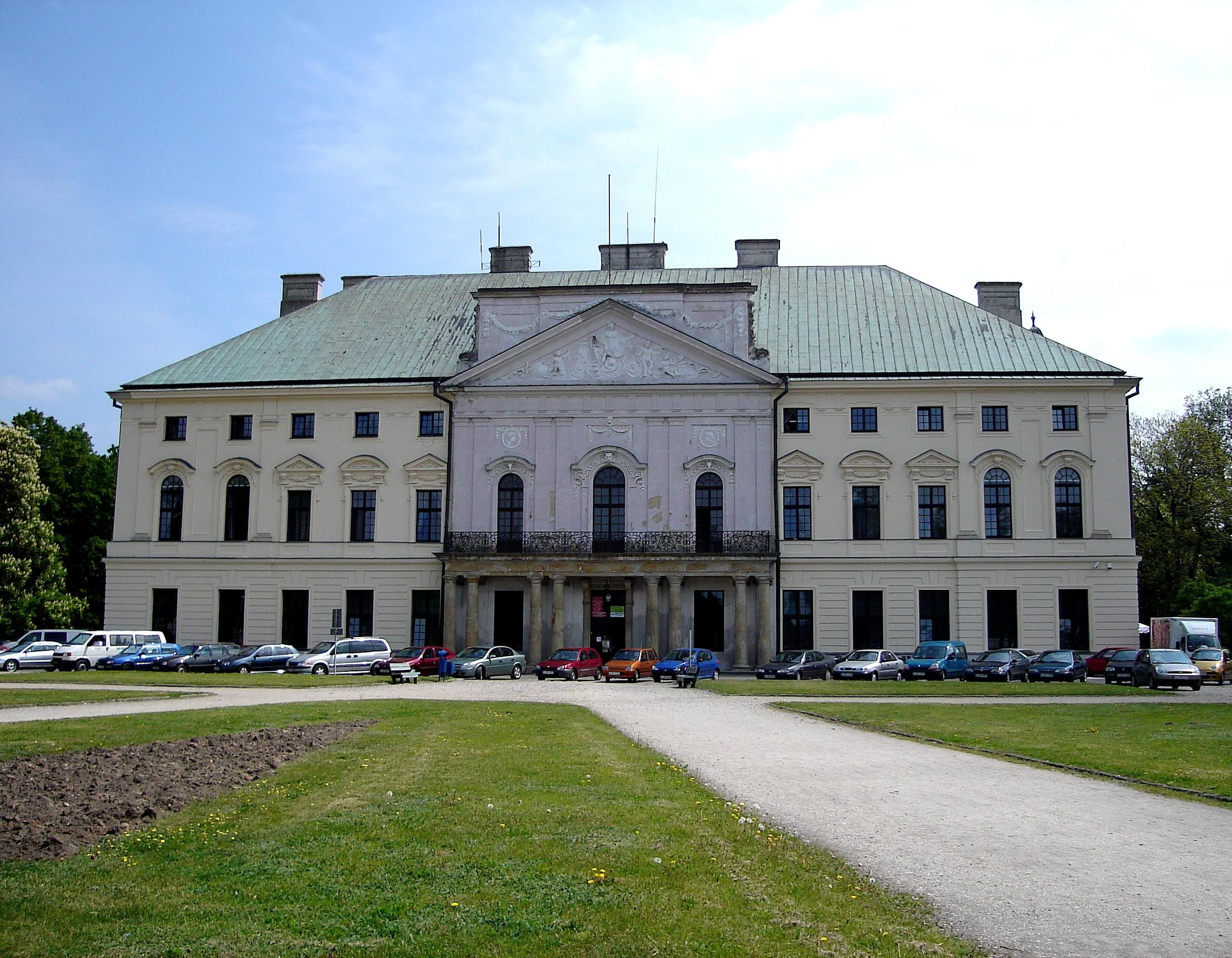 Palace of Sanguszkowie - Lubartów